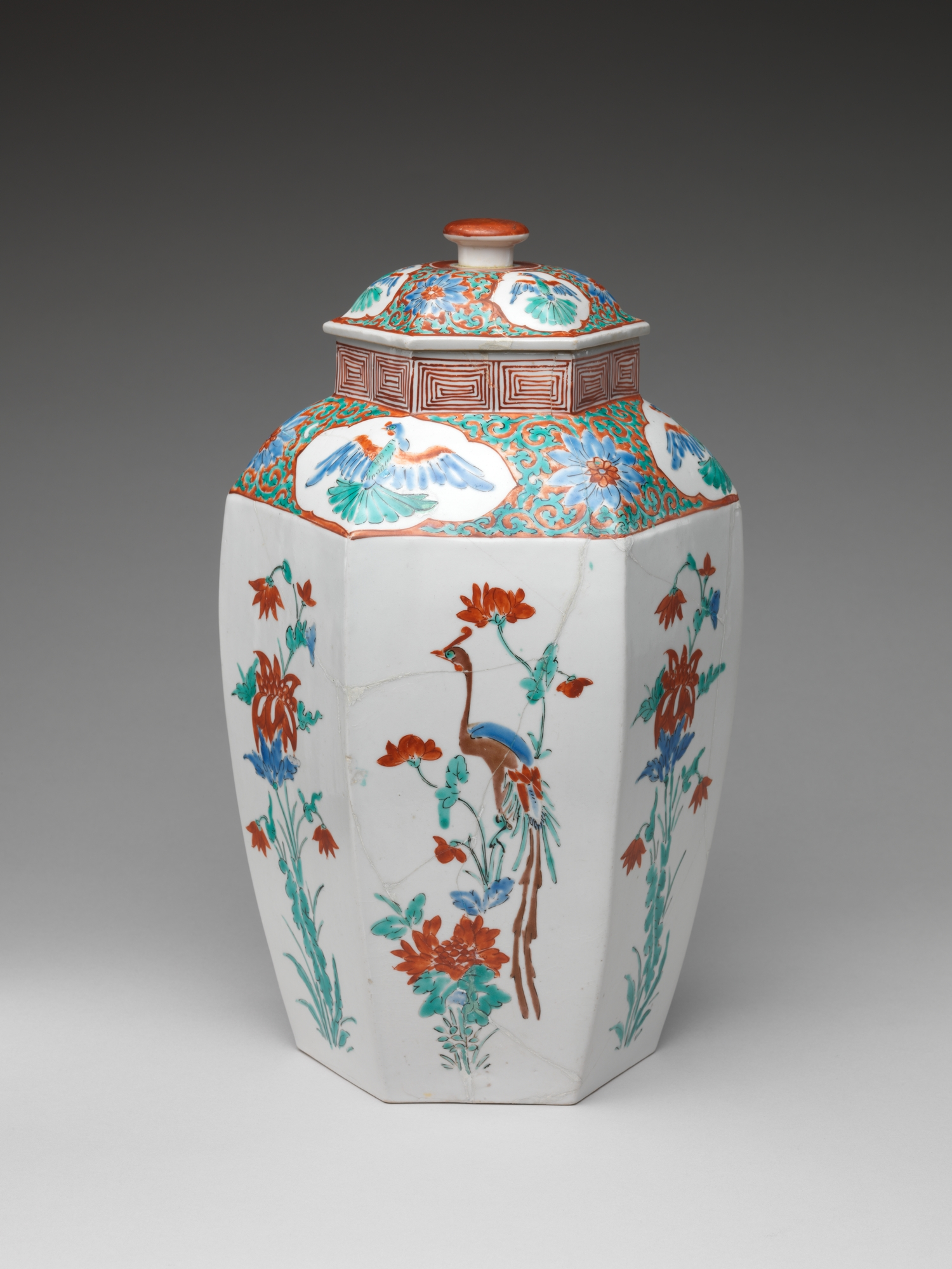 Japan; Jar; Ceramics